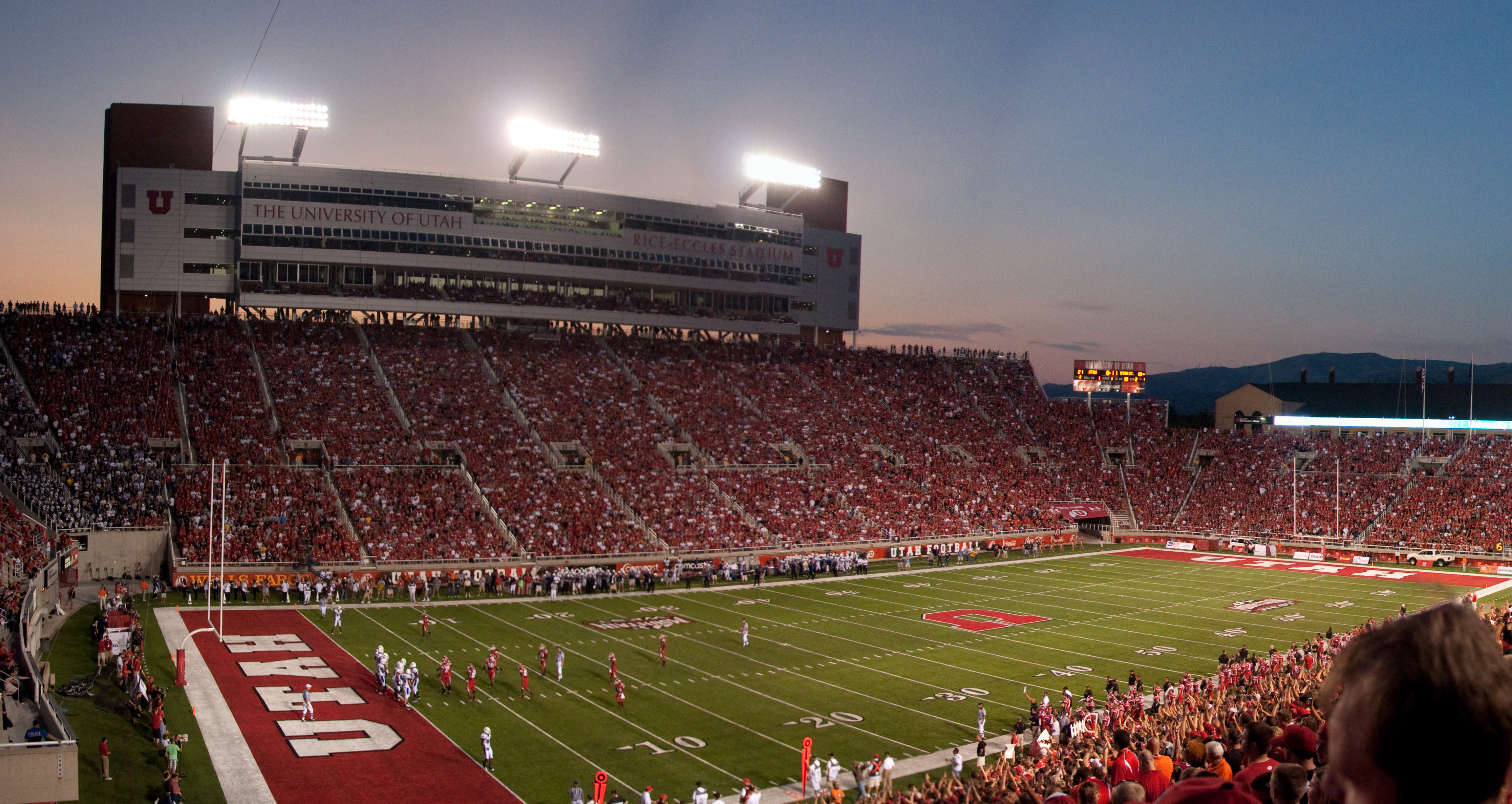 cropped version of thisː